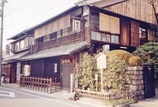 Teradaya, site of attack on Sakamoto Ryoma in Fushimi section of Kyoto, Japan. Ryoma was attacked and injured by the Fushimi Machibugyo police. I took this photograph and contribute it to the public domain.